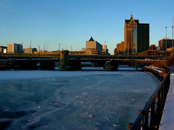 Milwaukee River frozen over looking north from the Milwaukee Riverwalk in the Historic Third Ward.